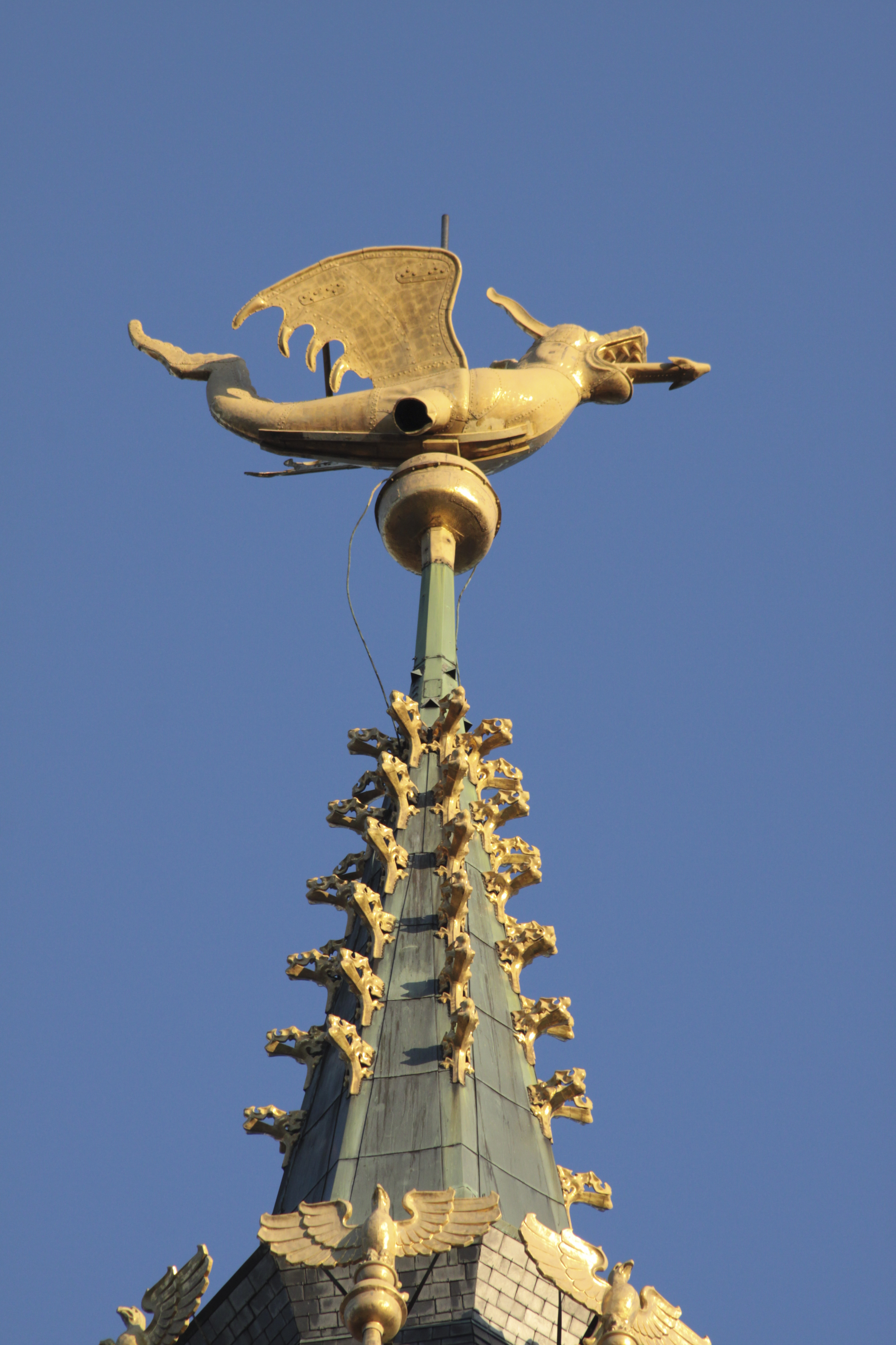 The dragon atop the belfry of Ghent